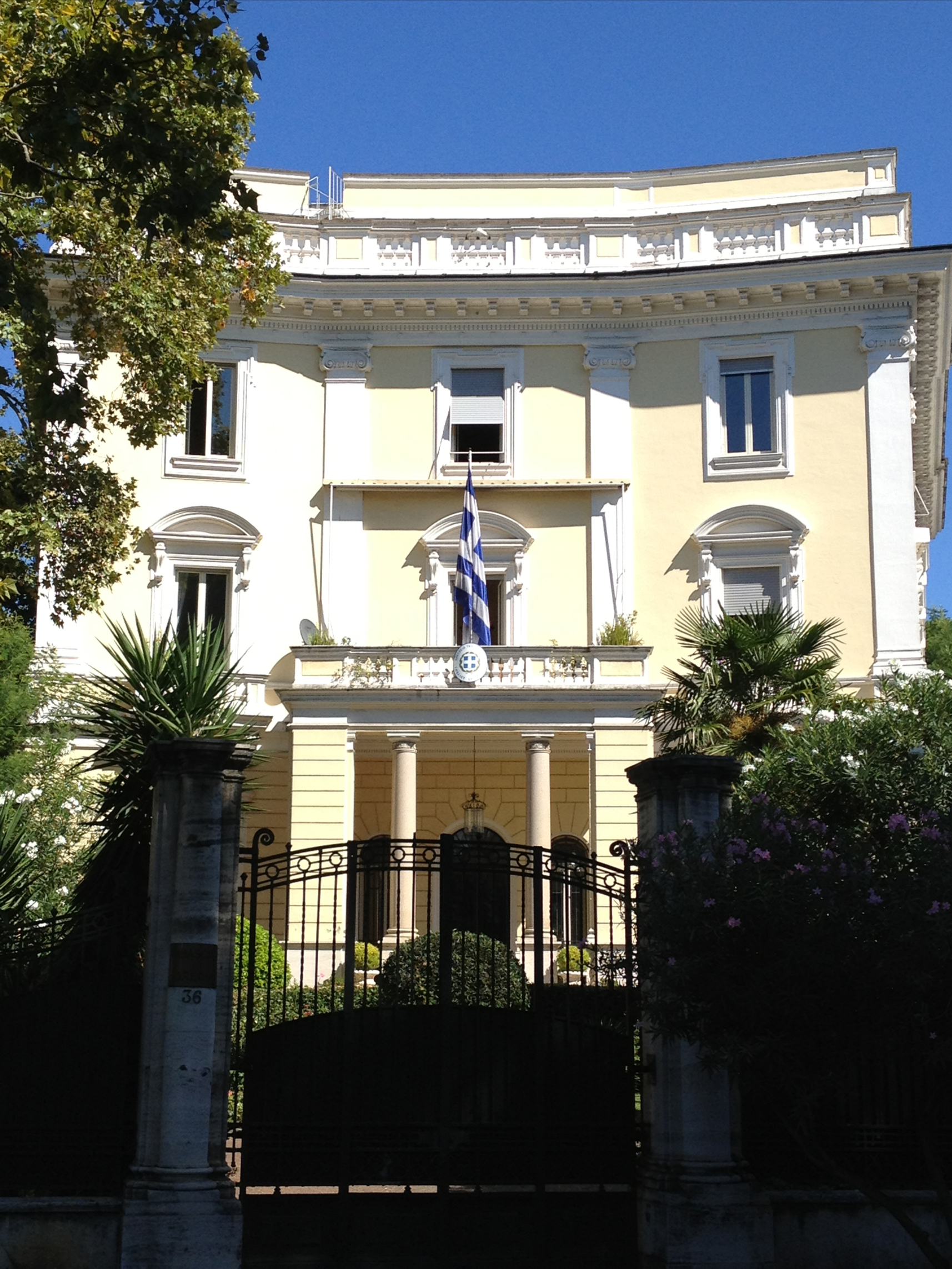 Embassy of Greece in Rome, Italy, viale Gioachino Rossini 4.